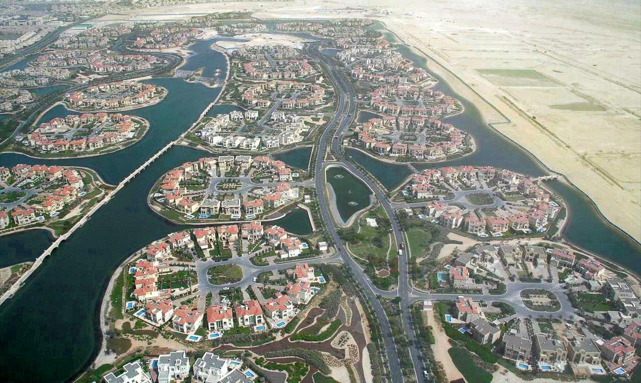 This is a photo showing Jumeirah Islands in Dubai, United Arab Emirates as seen from the air on 1 May 2007.